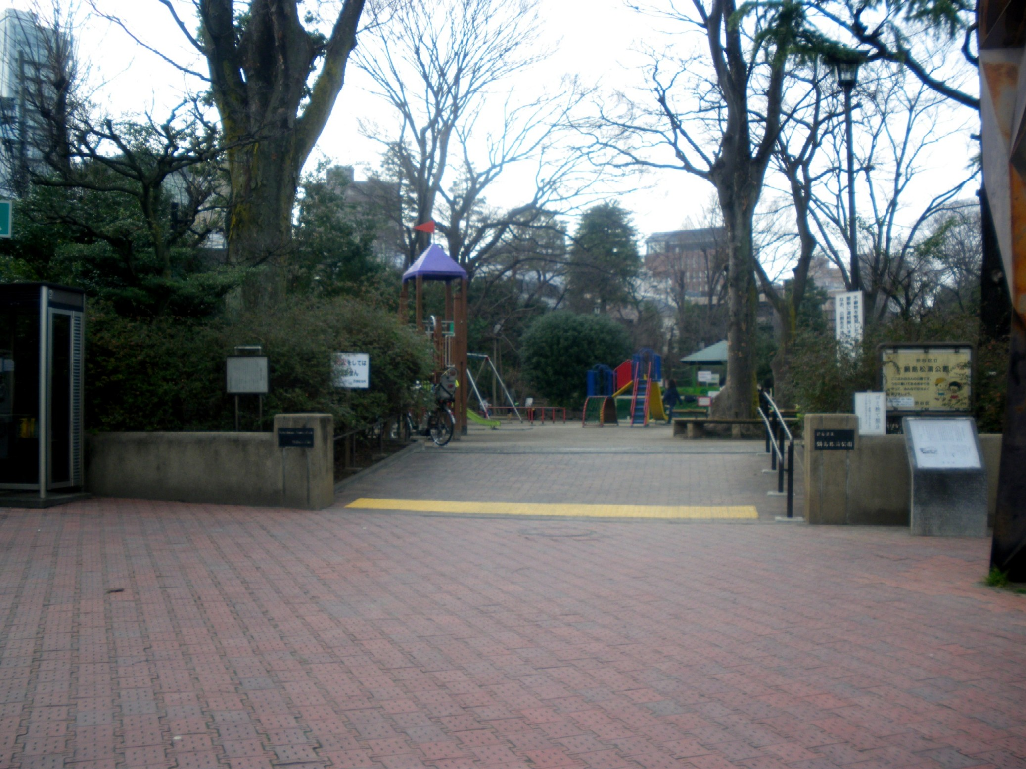 Nabeshima Shoutou Park(Shibuya,Tokyo)